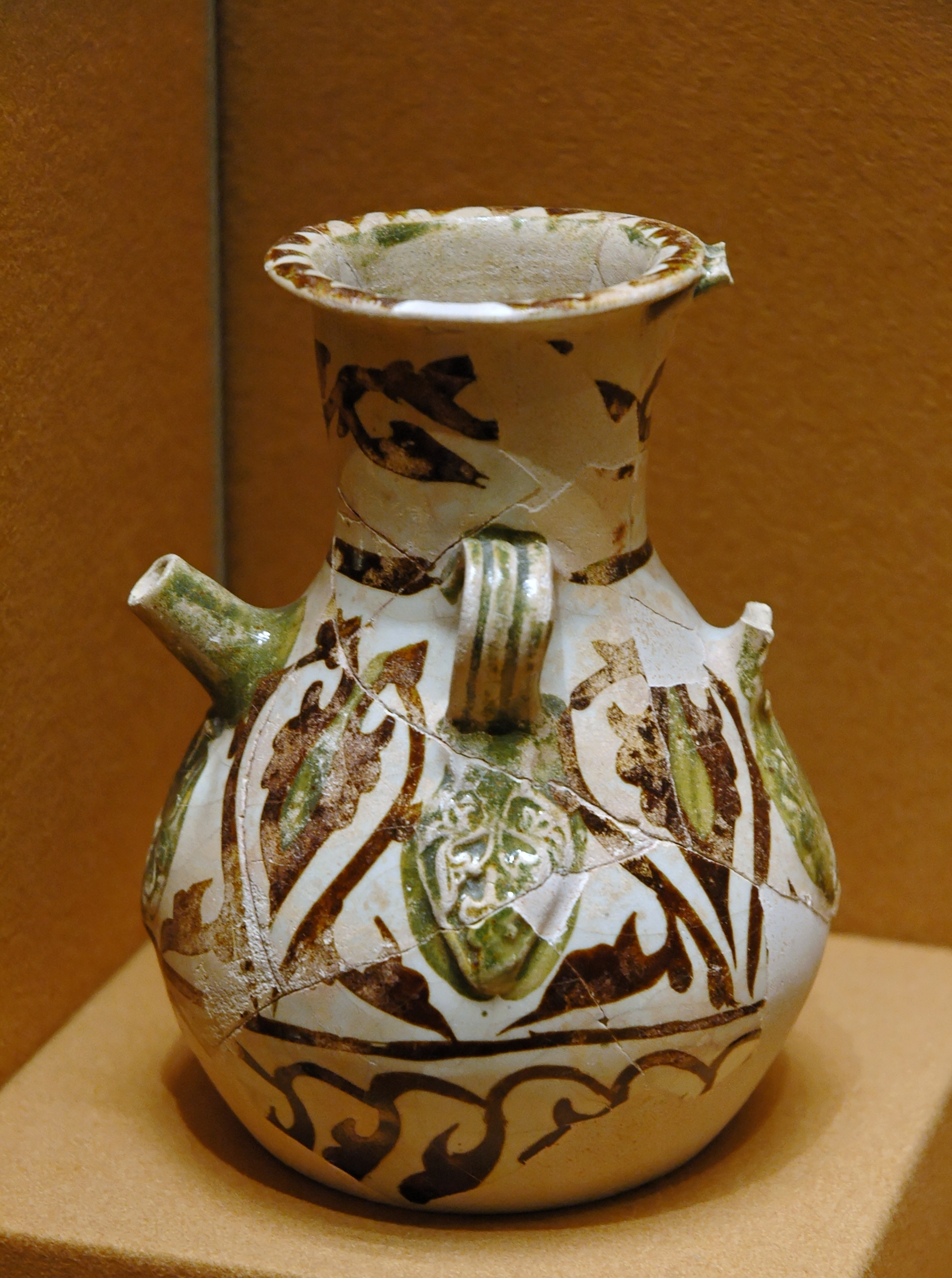 Fragmentary jug with palmette decoration. The shape of the jug is quite unusual and proves that Iranian potters knew Changsha ceramic.